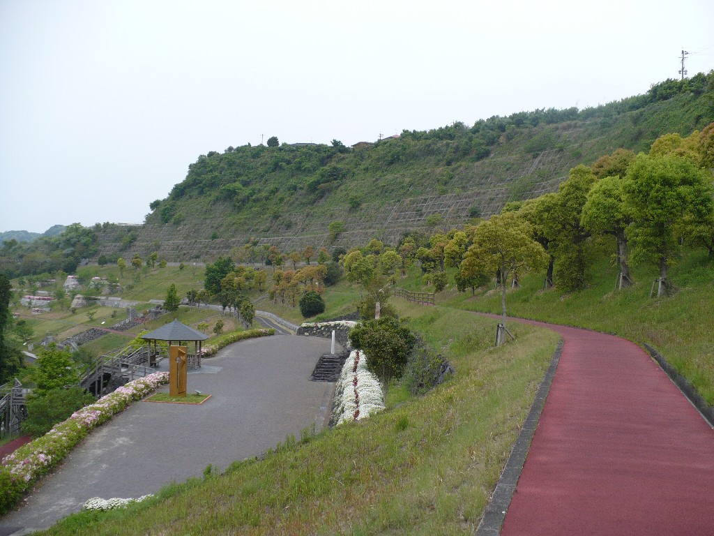 Saboulandpark Aira, Aira town Kagoshima prefecture Japan. The cliff shown on the photo had falled massively by heavy rain in August 1993. After that, erosion control works had been applied to the cliff and ruins of the failure became a park. "Sabou"(砂防) is a Japanese word for erosion control.